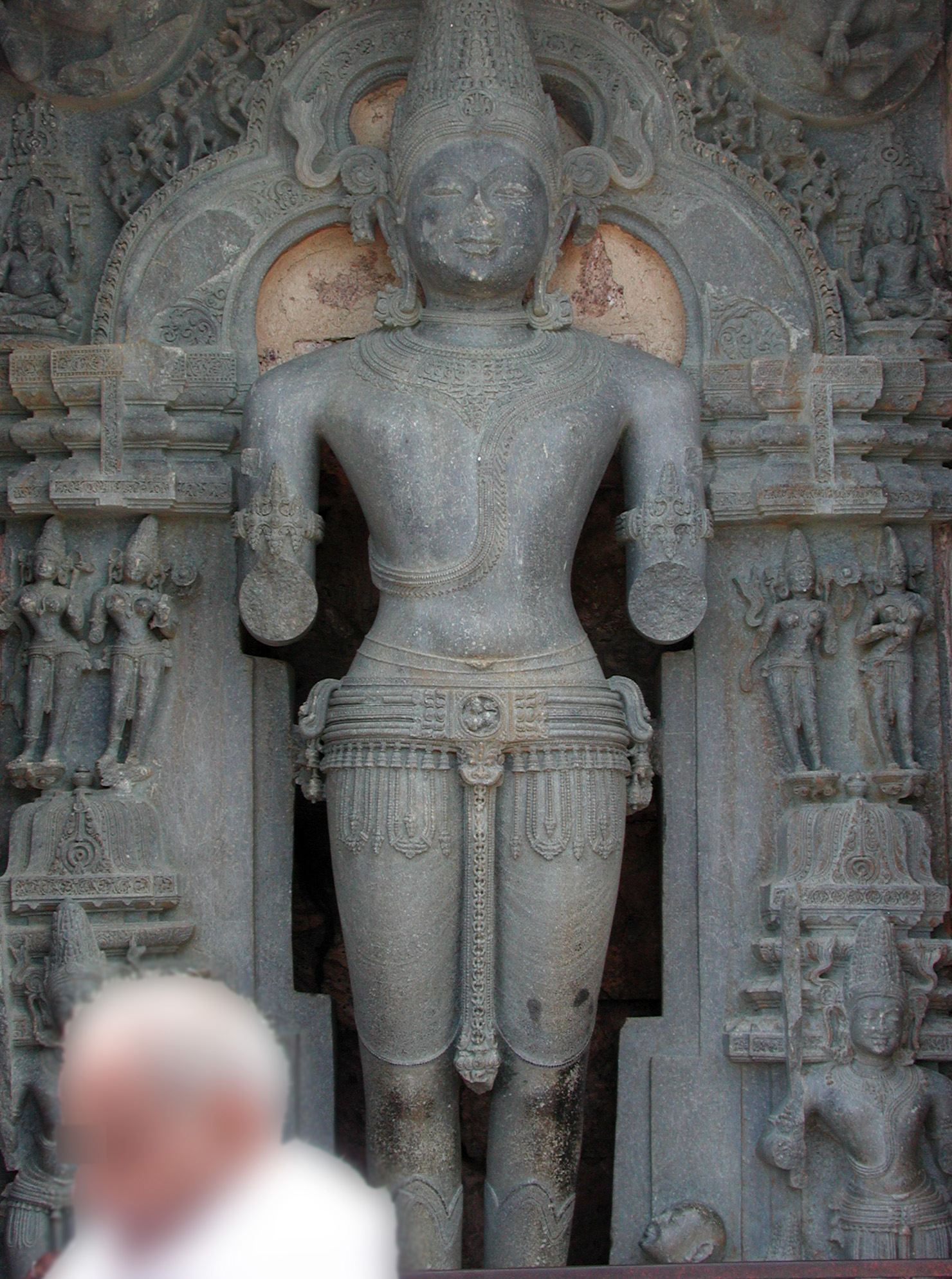 Statue of the Sun God Surya in the Sun Temple in Konark, Orissa, India.